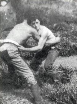 Old picture of Cantabrian wrestling in Valdáliga, Cantabria, Spain. Montañés: Fotu antigua d'Aluche cántabru en Valdáliga, Cantabria, España.